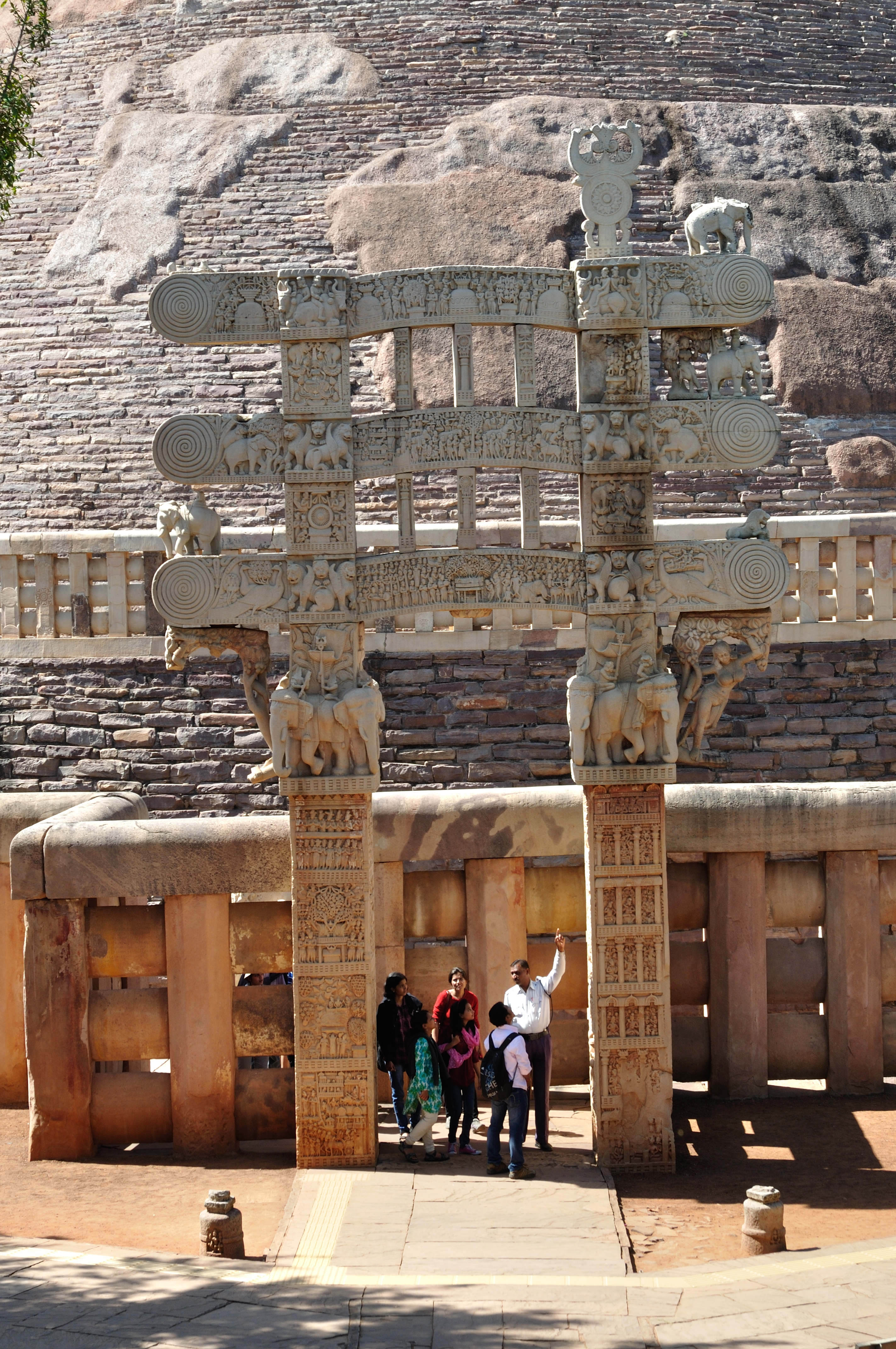 Photographed at the Sanchi Hill, Raisen district of the state of Madhya Pradesh, India.